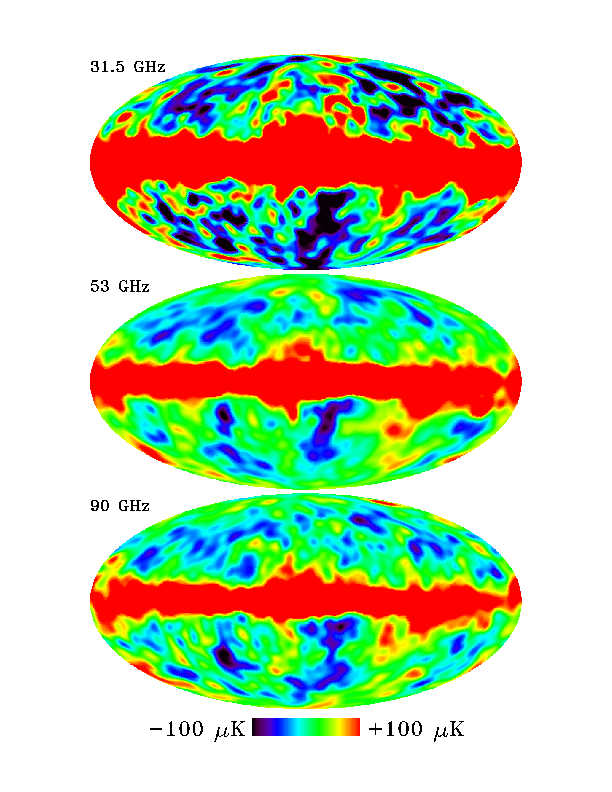 Map of the CMB temperature, based on data obtained over the full four-year COBE mission, at each of the three DMR frequencies (31.5, 53, and 90 GHz) following dipole subtraction.